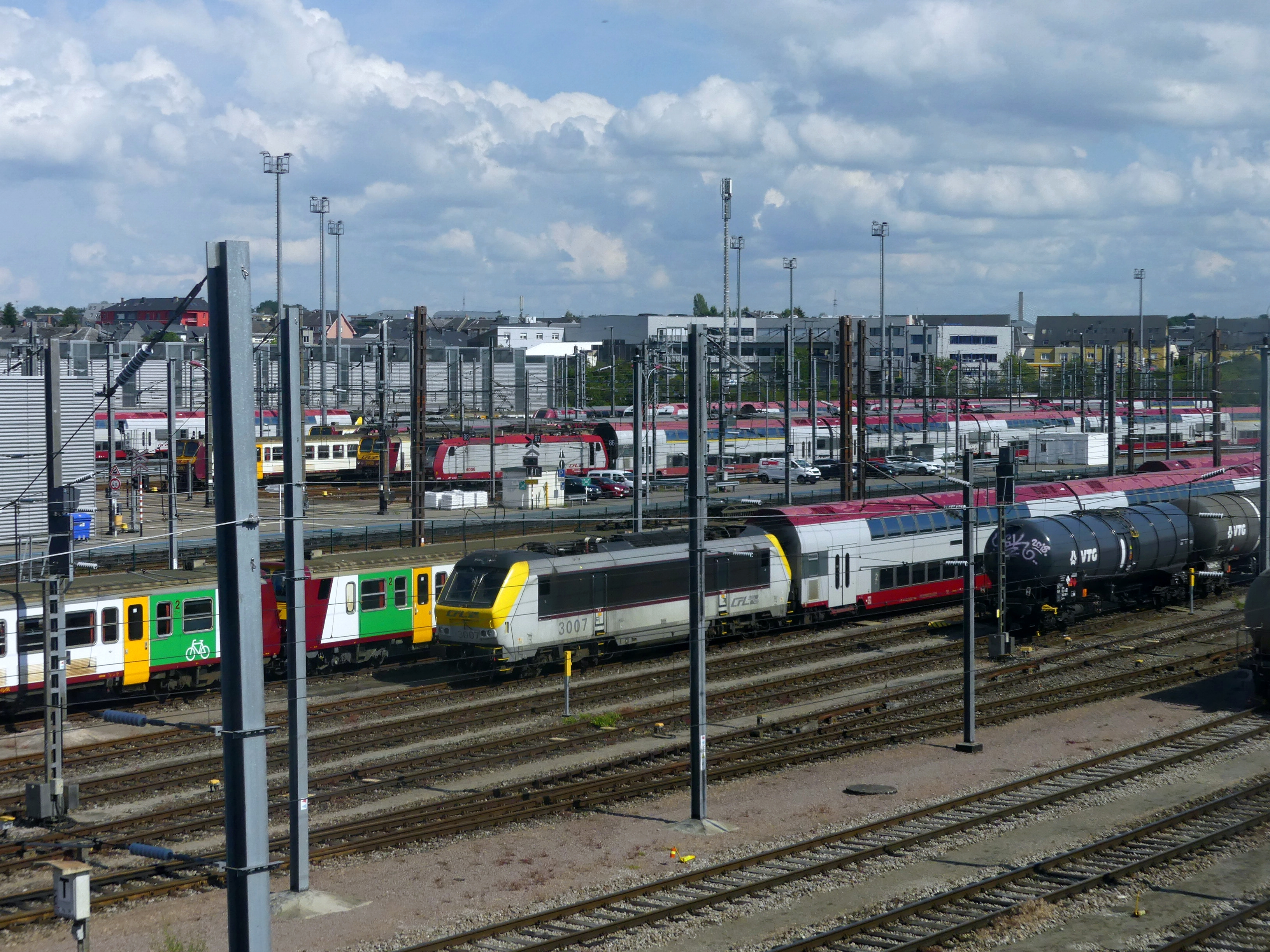 Sight of Luxembourg railway marhsalling yard, in Luxembourg.